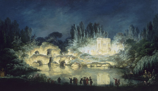 Illumination du Pavillon du Belvédère (Petit Trianon), Claude-Louis Châtelet (1753-1794)